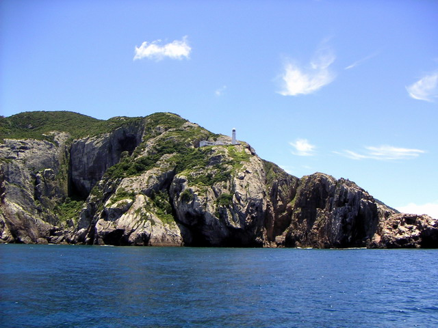 Focinho do Cabo Lighthouse (Cabo Frio Lighthouse), near Arraial do Cabo, Rio de Janeiro, Brazil.